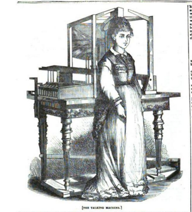 The Euphonia